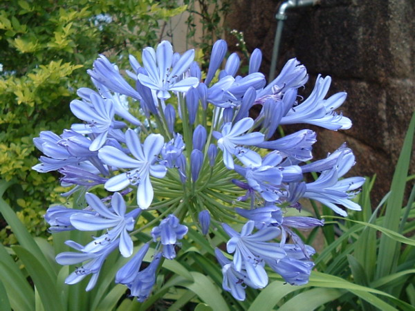 Agapanthus africanus